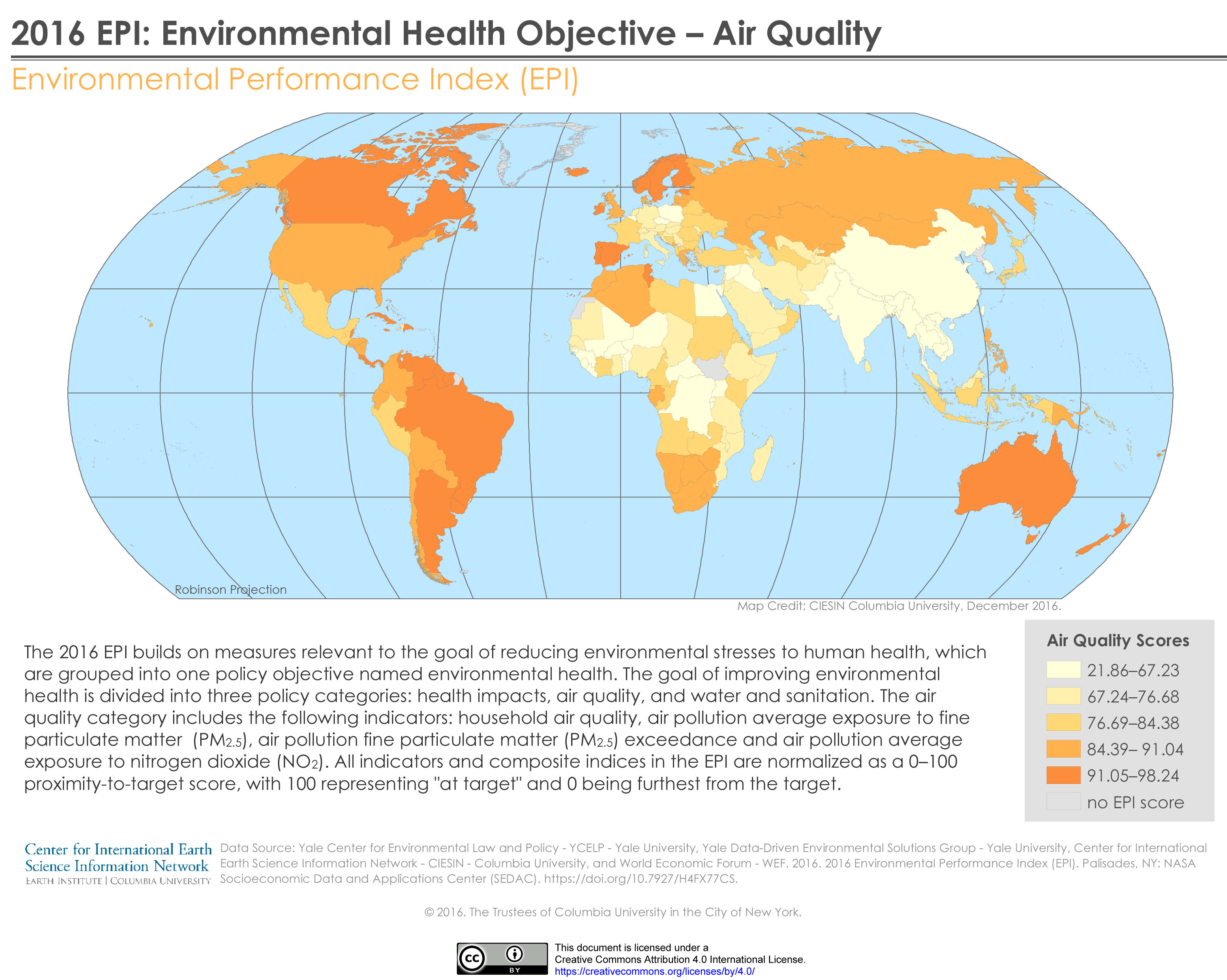 The 2016 EPI builds on measures relevant to the goal of reducing environmental stresses to human health, which are grouped into one policy objective named environmental health. The goal of improving environmental health is divided into three policy categories: health impacts, air quality, and water and sanitation. The air quality category includes the following indicators: household air quality, air pollution average exposure to fine particulate matter (PM2.5) air pollution fine particulate matter (PM2.5) exceedance and air pollution average exposure to nitrogen dioxide (NO2). All indicators and composite indices in the EPI are normalized as a 0–100 proximity-to-target score, with 100 representing "at target" and 0 being furthest from the target. The Environmental Performance Index, 2016 Release (1950-2016) data set is part of the Environmental Performance Index (EPI) collection. See more information at .